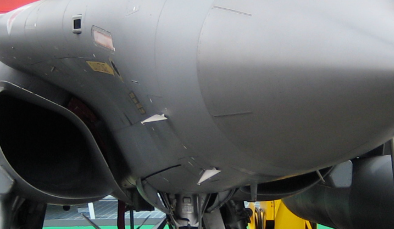 The rotatable multifunction sensors of the pitot-static system of a Dassault Rafale at the Paris Air Show 2009.